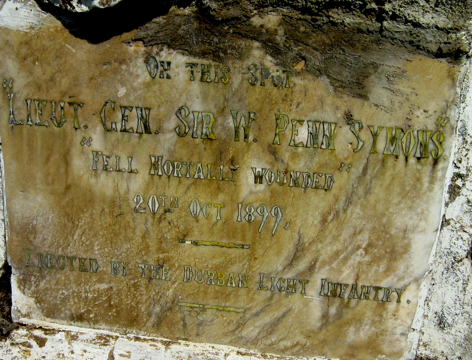 Memorial to Gen Sir William Penn Symons mortally wounded in the battle of Talana 20 October 1899 This media shows a South African Protected Site with SAHRA file reference 9/2/406/0012/2See also: External entry in South African Heritage Resource Agency database.